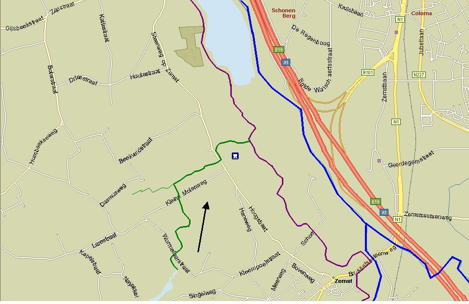 Map of the Molenbeek (brook) in Zemst